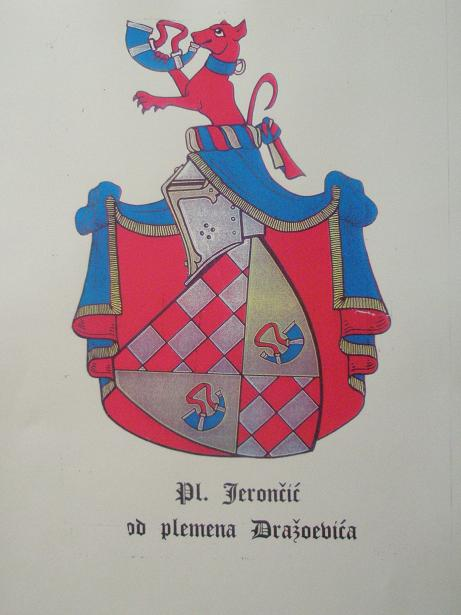 Emblem Jerončić